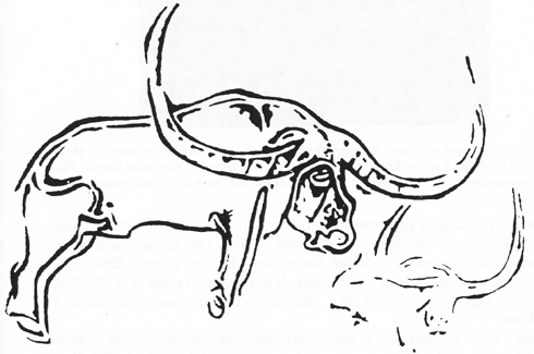 Cave art of "great bubaline" from Libya, thought by some to depict the extinct bovine Pelorovis antiquus.